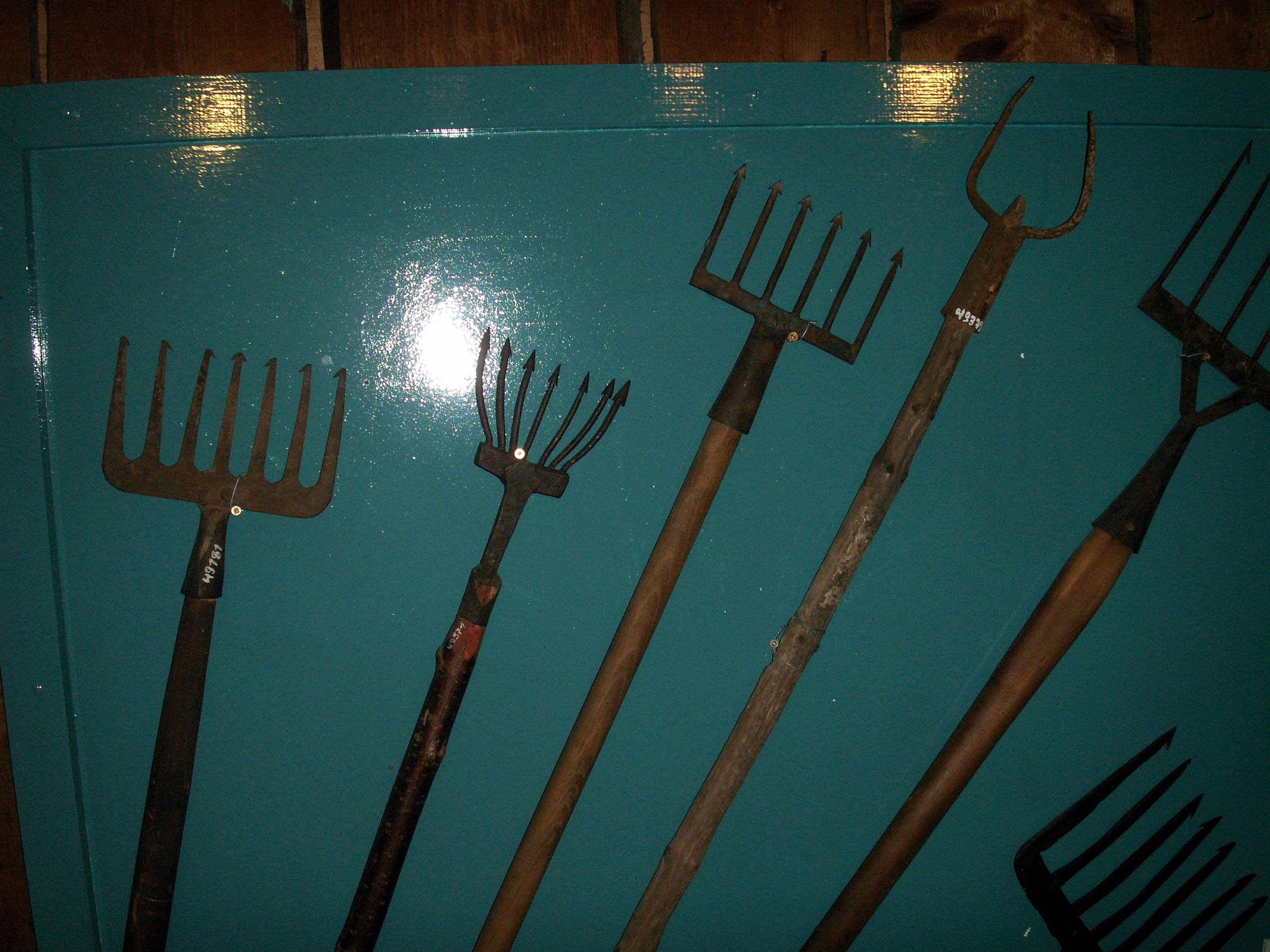 Hand Forged Fish engraver (fish gigs) for illegal fishing at the old fisherman house near lake Millstatt in Seeboden / Carinthia / Austria / European Union, currently a fisheries museum. 2008, the museum was sold to the community of Seeboden, which shut in 2009 the museum. The museum was founded in 1980 (2009 closed until mid-2011 of the municipality Seeboden temporarily).